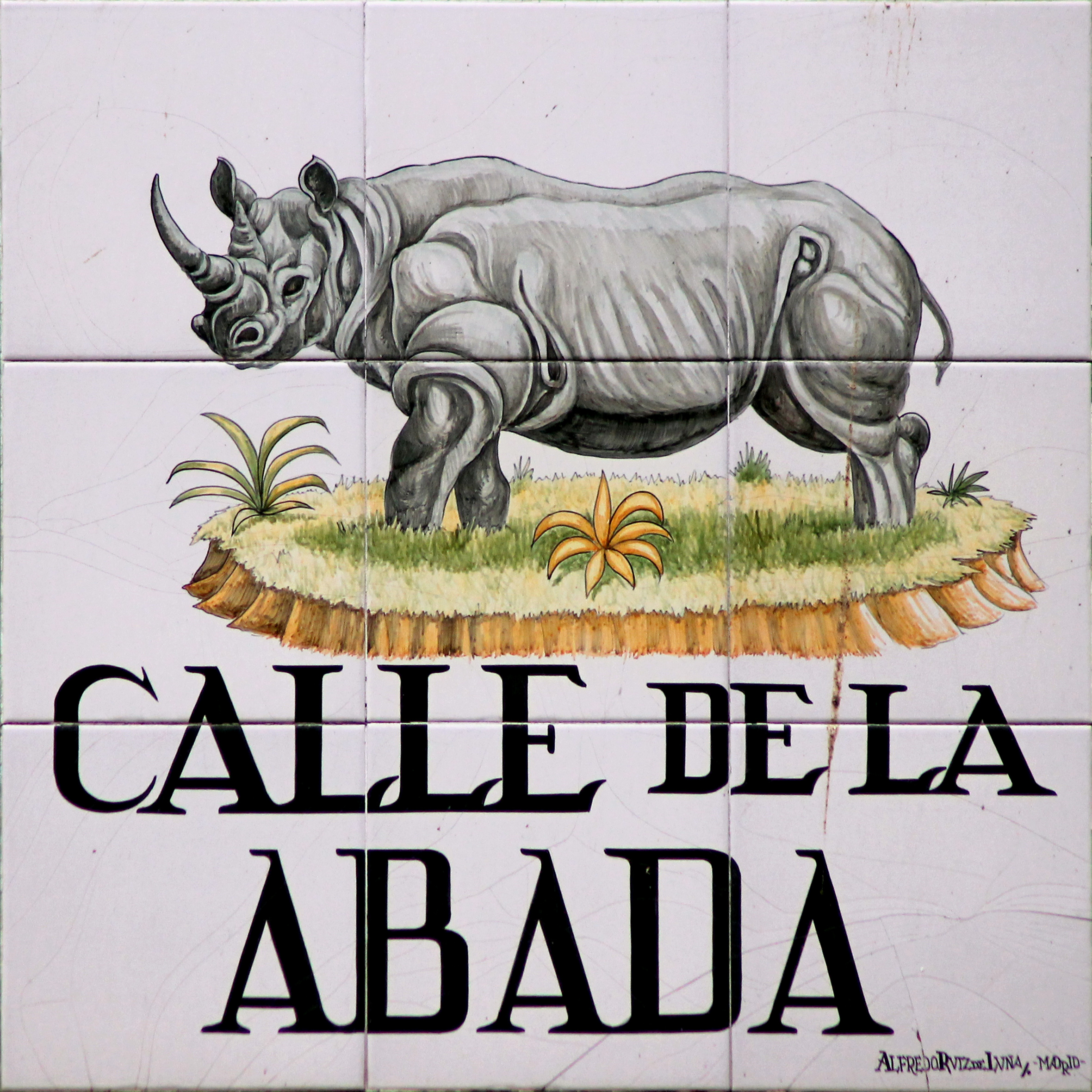 Sign of Calle de la Abada (street) in Madrid (Spain).